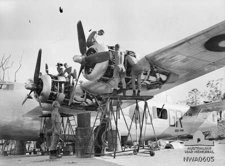 AWM caption : Manbulloo, NT. c. July 1944. Ground crew of No. 24 (Liberator) Squadron RAAF service one of their aircraft (serial no. A72-38) after its return from a mission in the South West Pacific area.